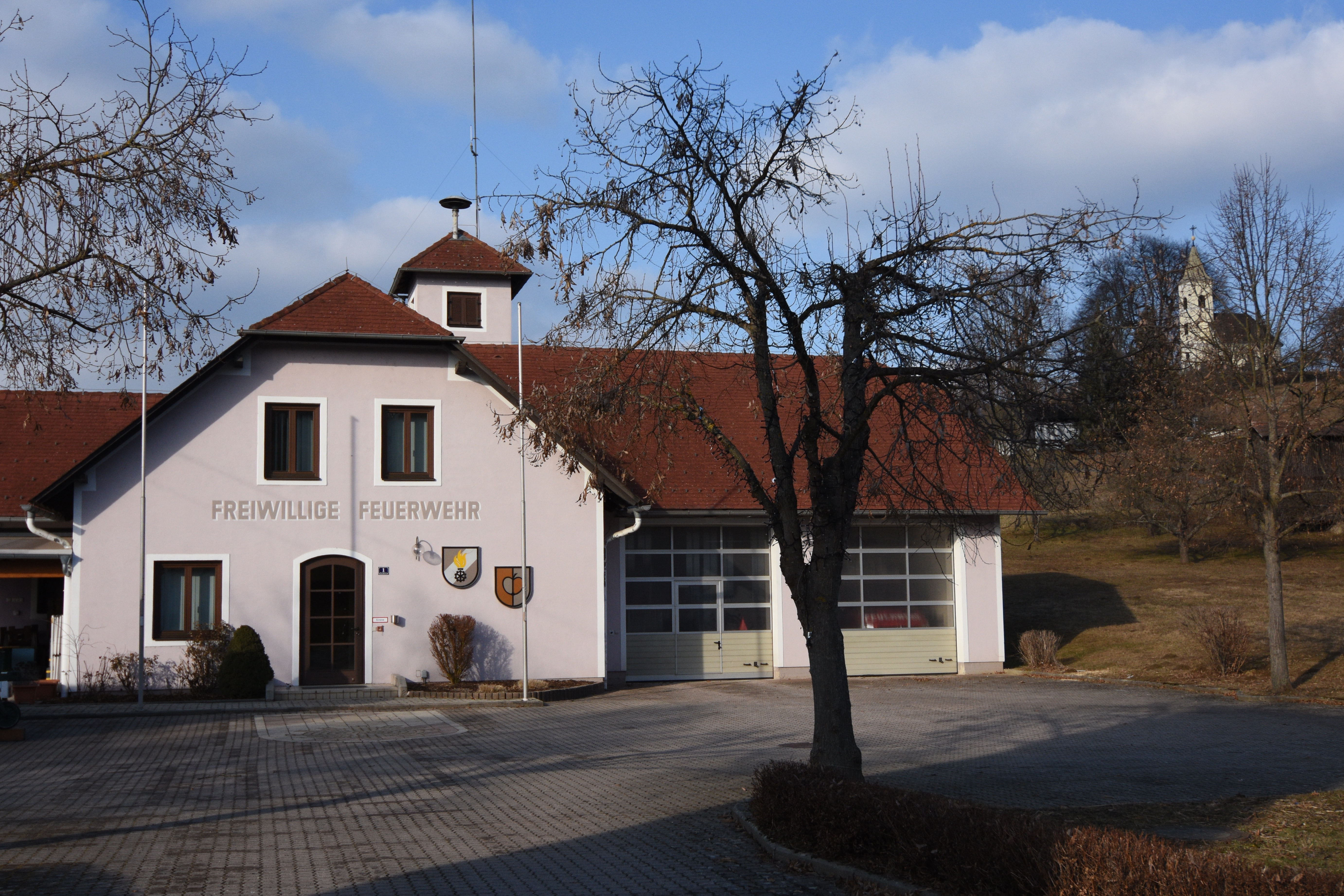 Fire Station Limbach im Burgenland